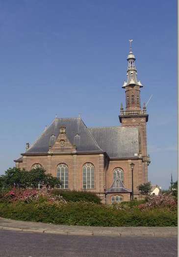 The Nieuwe Kerk in Katwijk aan Zee.